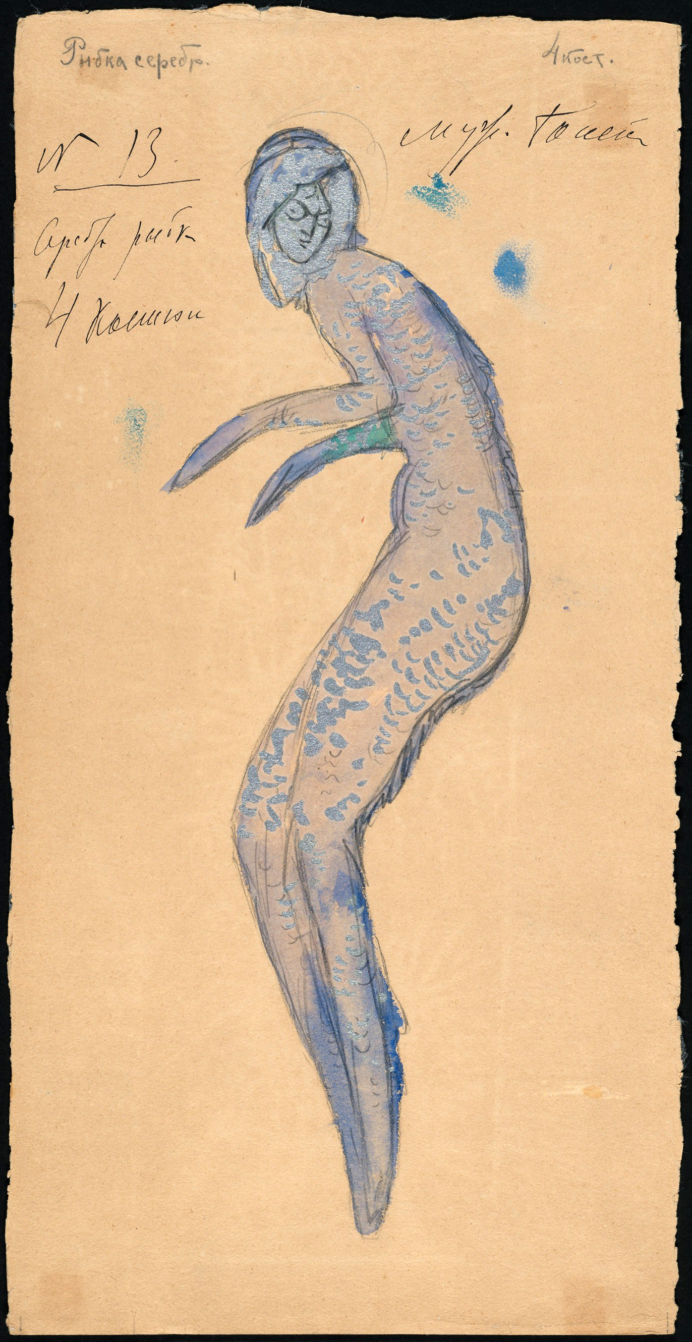 Sadko: costume design for Silver fish in Sea Kingdom scene, 1911. by Boris Israelevich Anisfeld (1879-1973). Pencil, watercolor and silver paint on paper; 45 x 23 centimeters. Inscription in Russian at top left corner: No 14 Silver fish, 4 costumes; at top right: male ballet. MS Thr 414.4 (2), Howard D. Rothschild Collection on Ballets Russes of Serge Diaghilev: Drawings and Prints, 1907-1956, Harvard Theatre Collection, Houghton Library, Harvard University